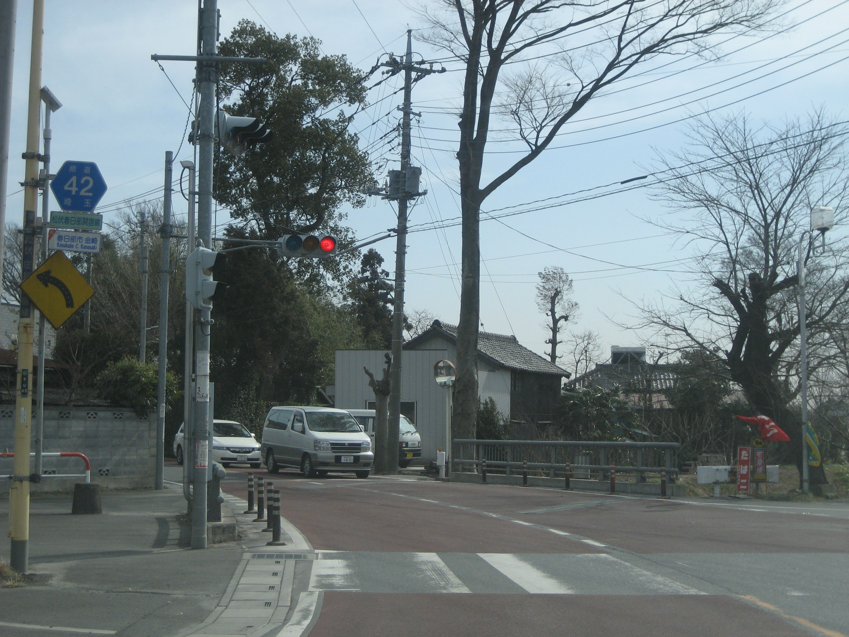 The Saitama Prefectural Road Route 42 in Kasukabe City